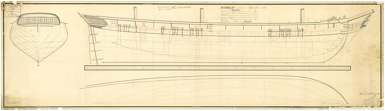 BOURDELAIS FL.1799 [FRENCH] lines & profile